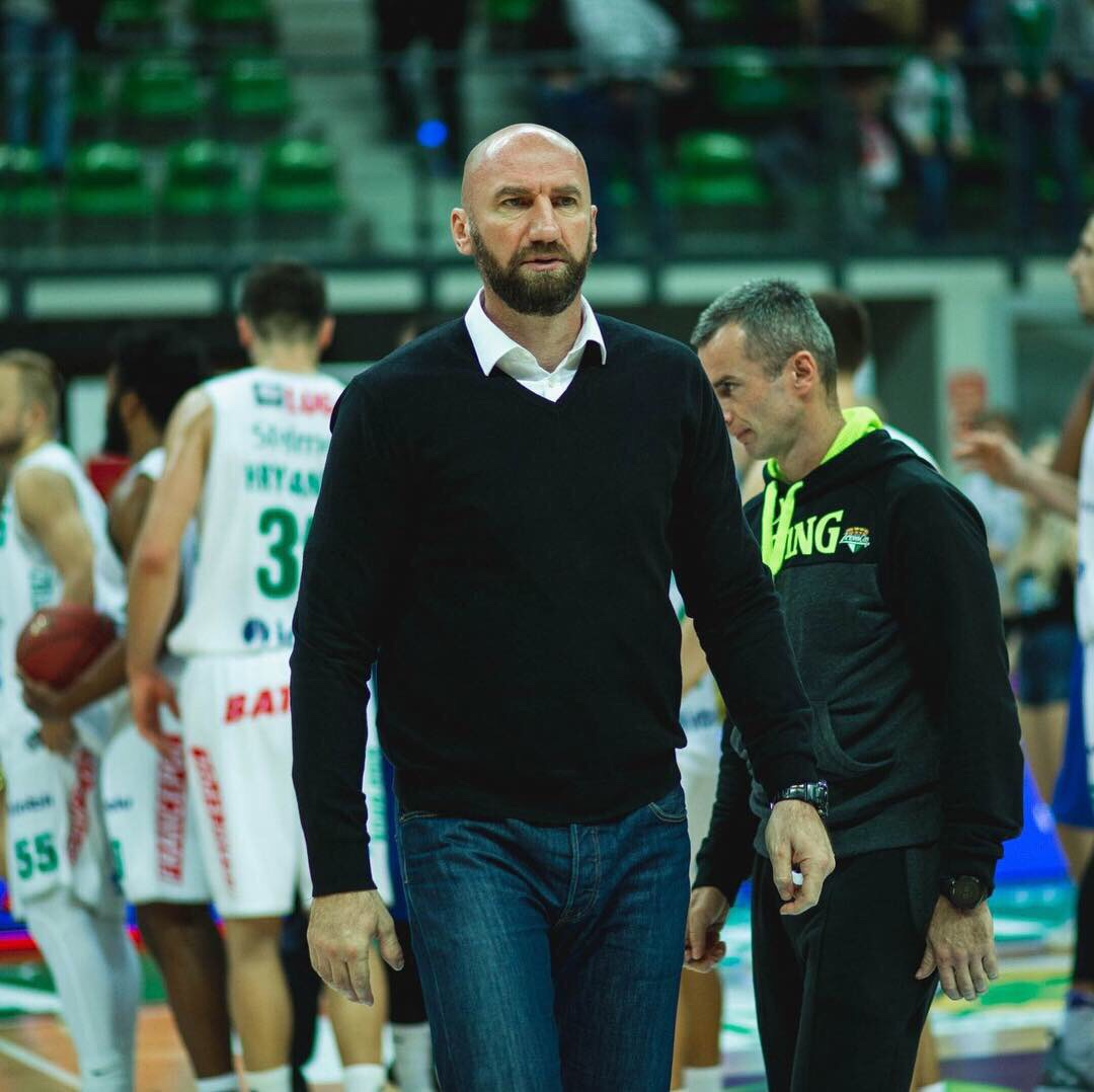 basketball coach